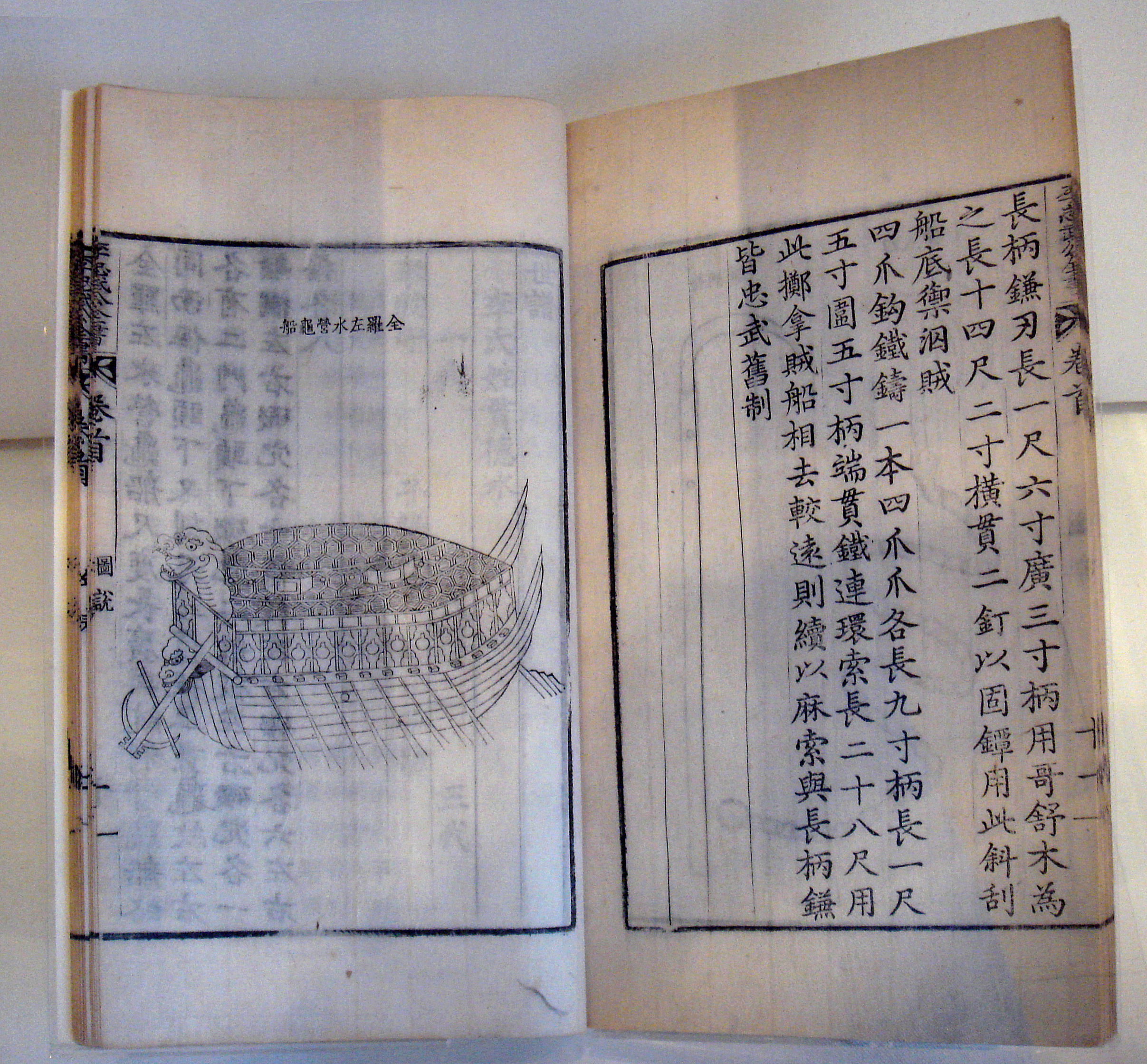 1795 Woodblock Printed Book On Yi Sun Sin